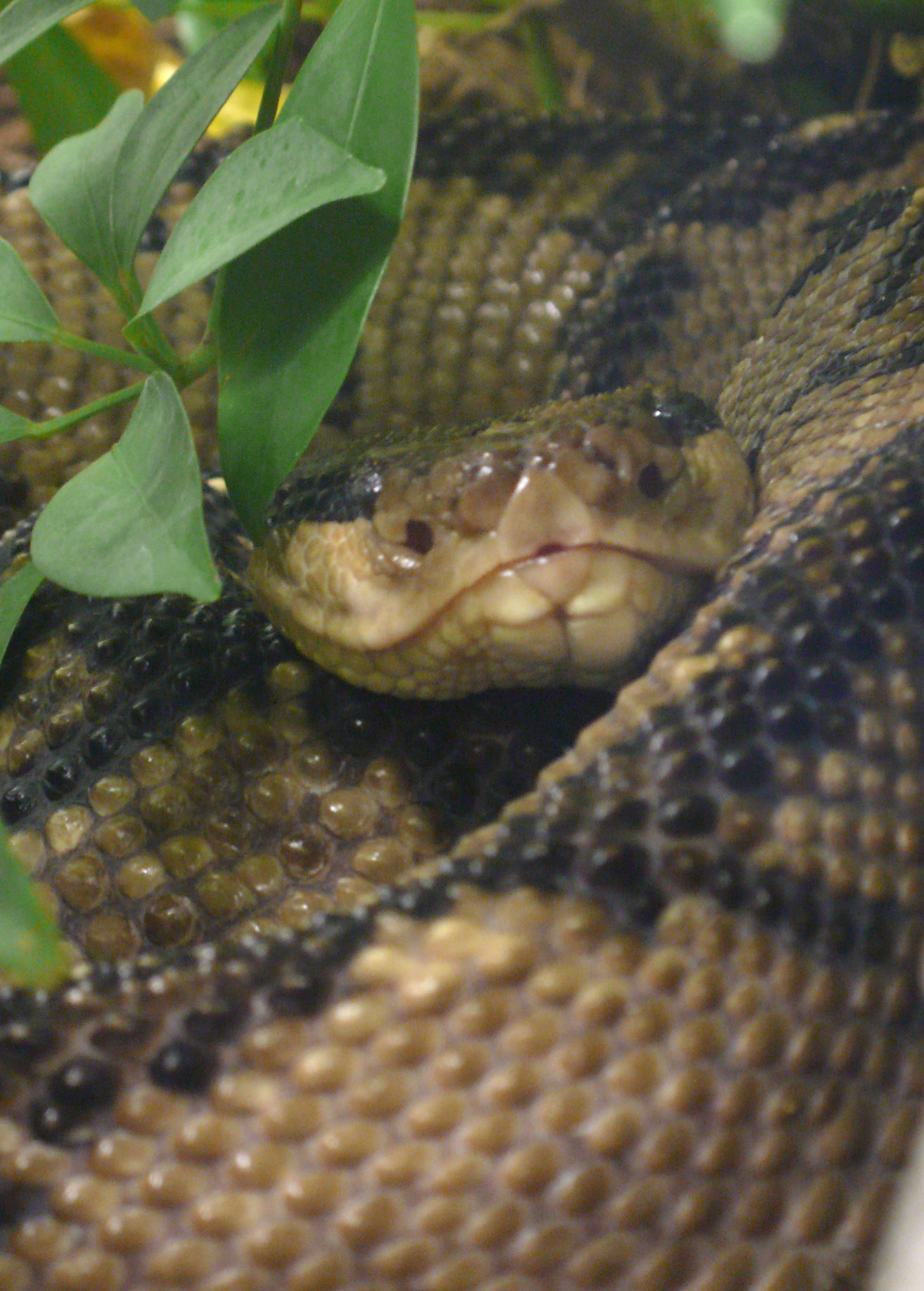 Central American bushmaster (Lachesis stenophrys }